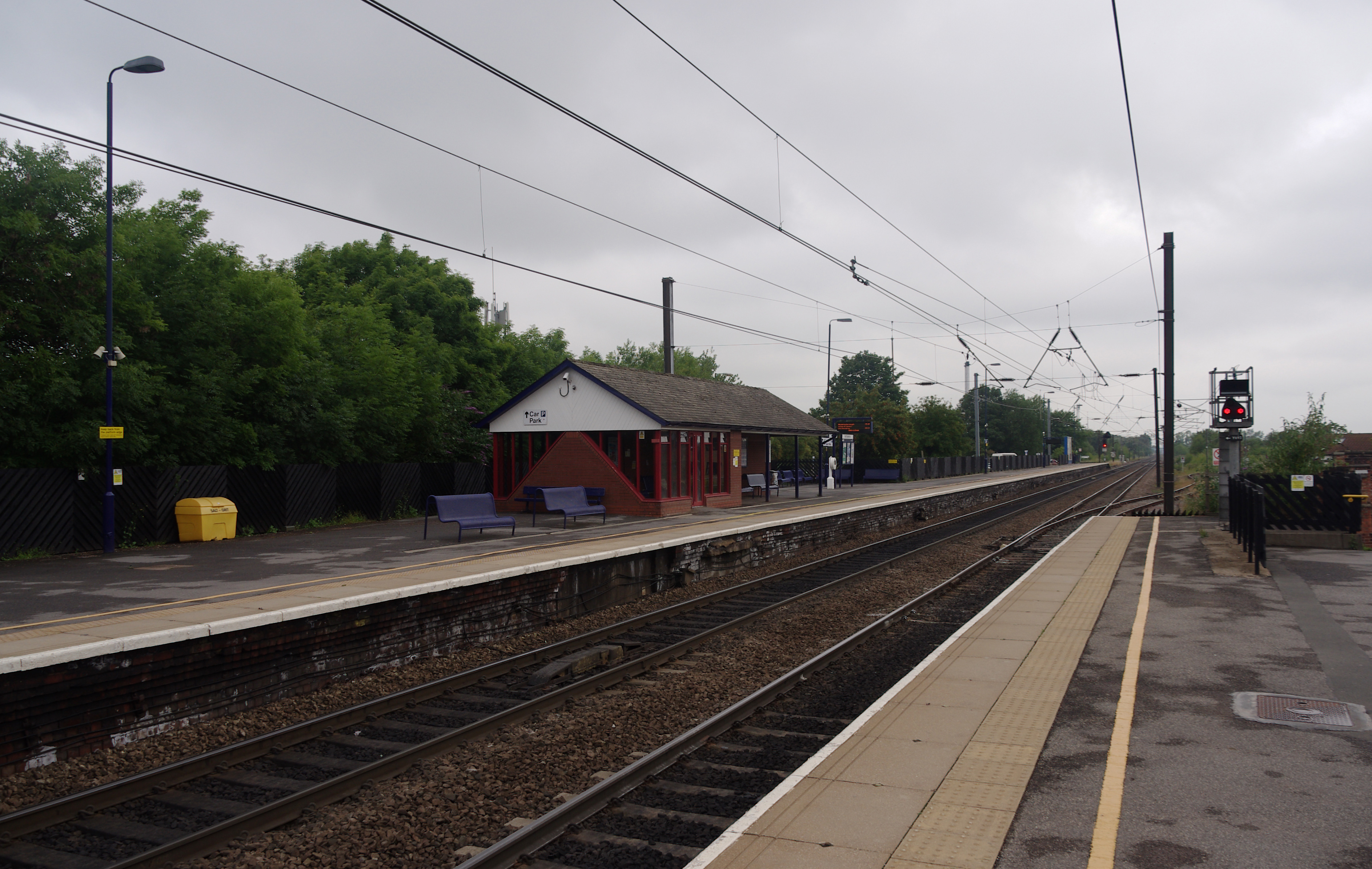 Northallerton railway station, northbound platform.